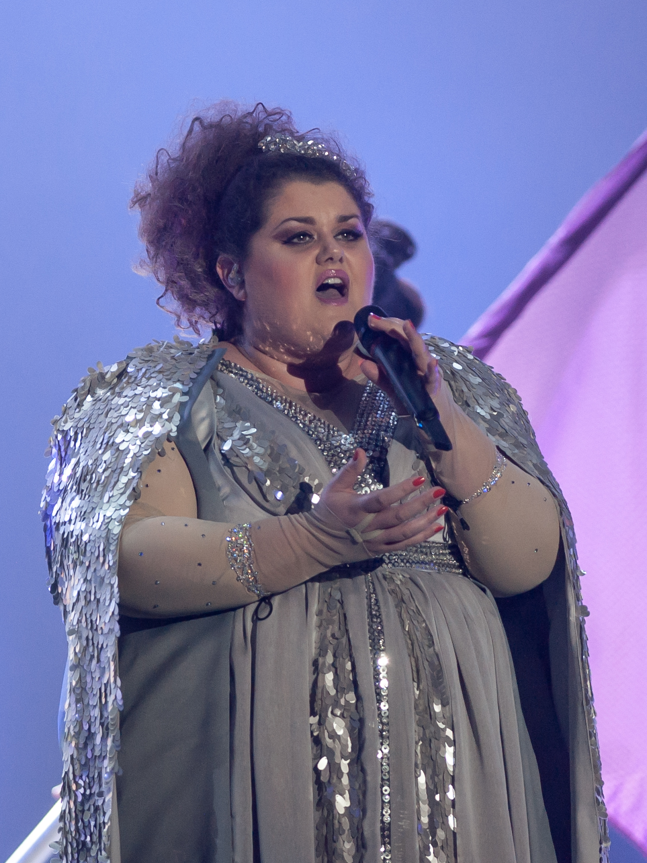 Eurovision Song Contest Vienna 2015: Bojana Stamenov